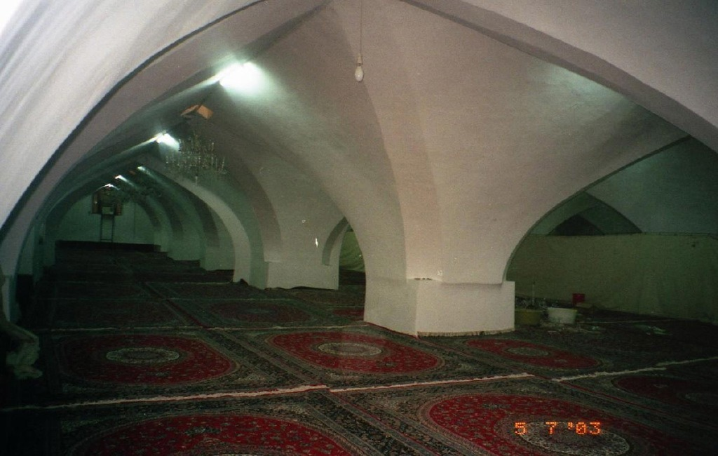 Mosque of Timur-i Lang in the Friday Mosque in Isfahan, Iran.